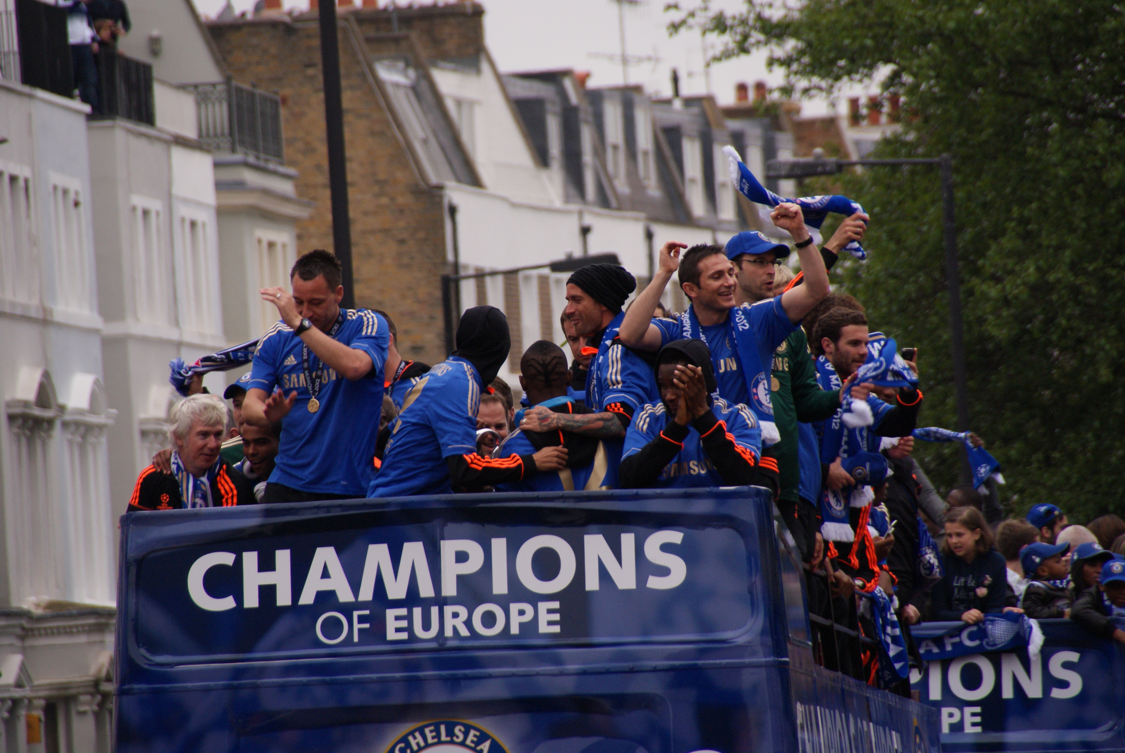 This photo was taken on Sunday 20th May 2012 during the Chelsea Football Club Parade following Chelsea's victory in the European Champions League Final.